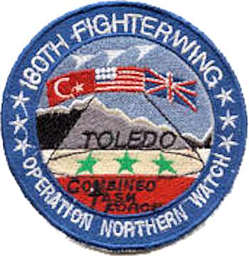 180th Fighter Wing Operation Northern Watch 1999